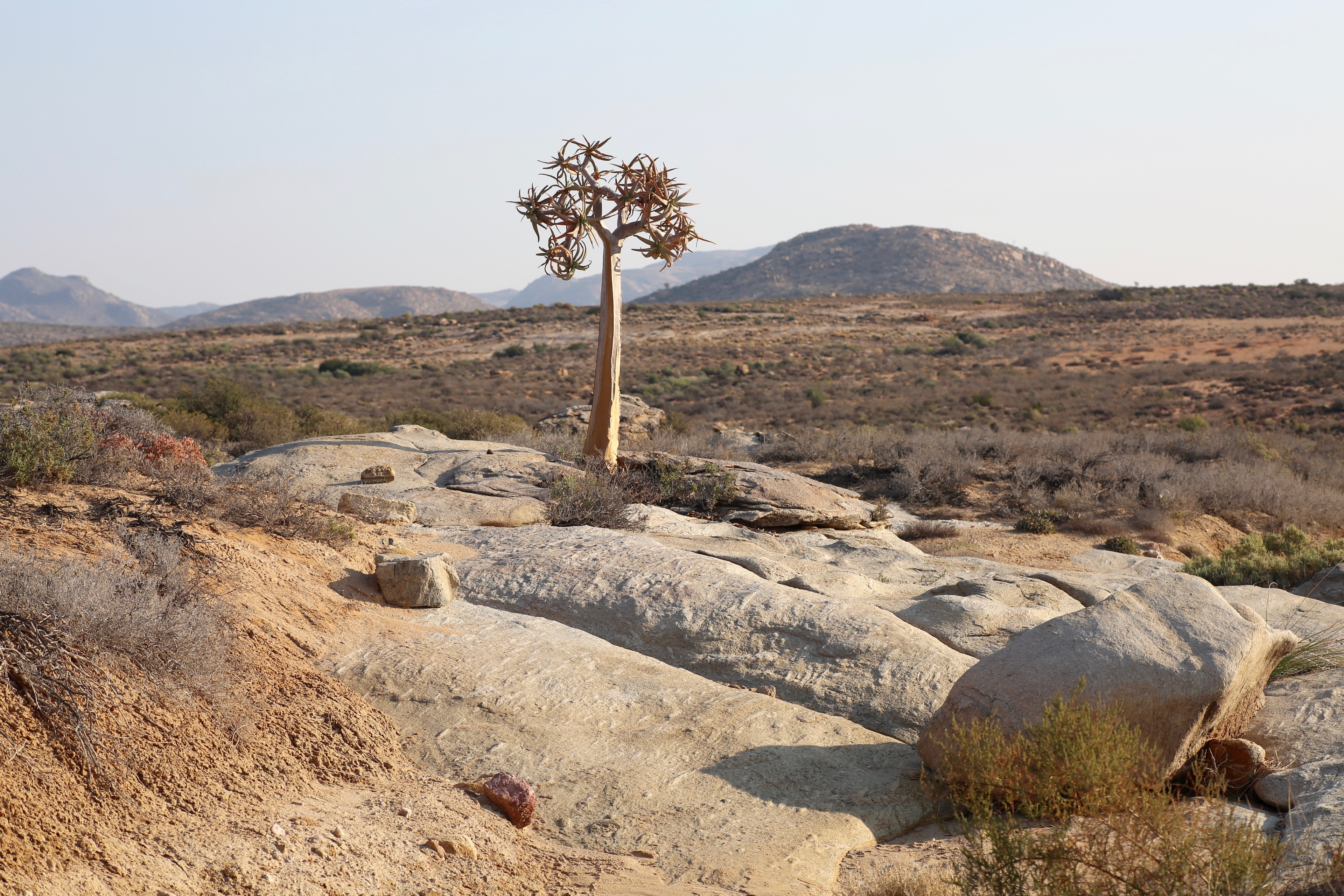 Farm in the vicinity of Springbok, Namaqualand, Northern Cape, South Africa